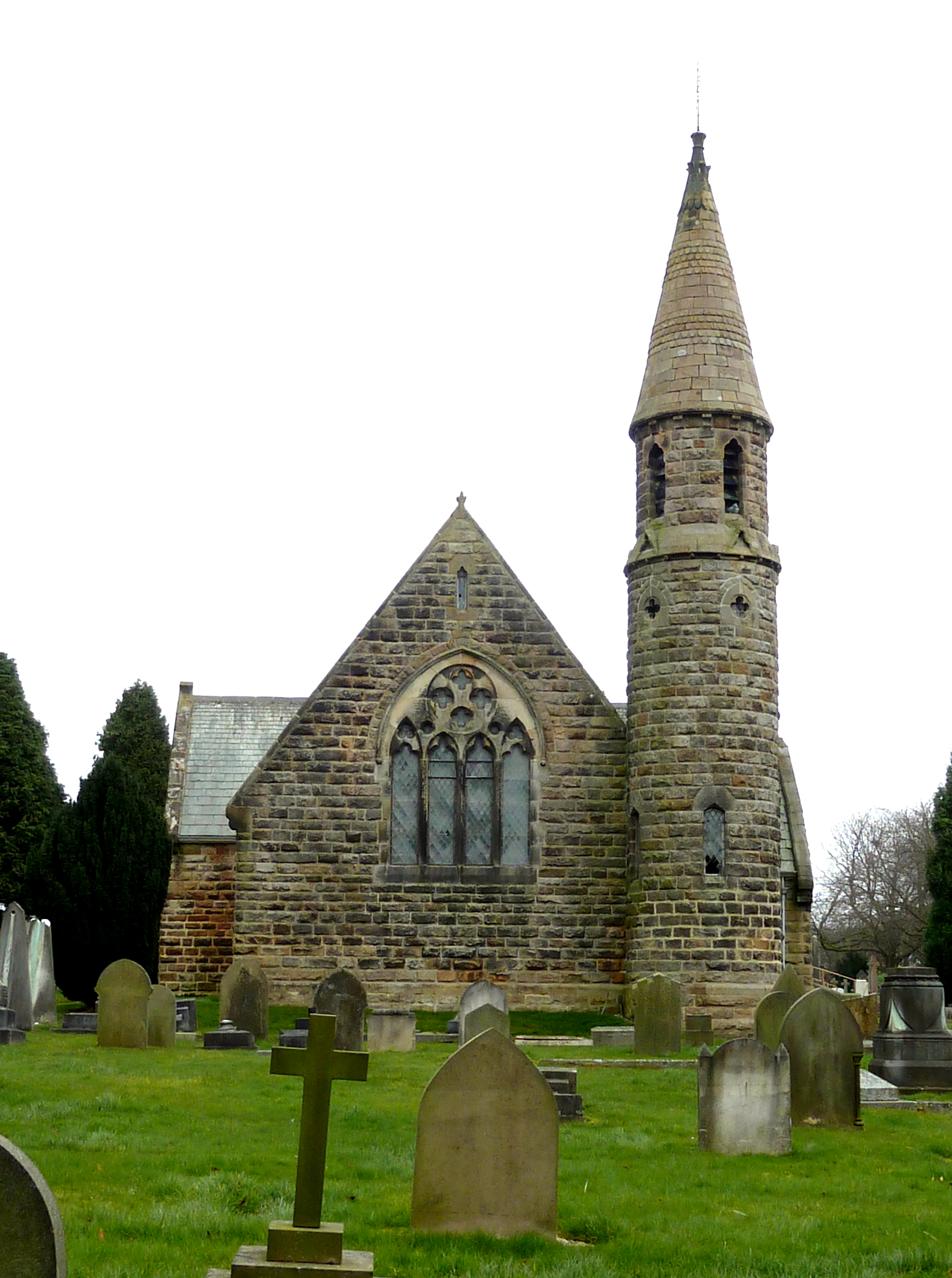 Church of All Saints, Otley Road, Harlow Hill, Harrogate, North Yorkshire, England. It is the cemetery chapel in Harlow Hill Cemetery, and was designed in 1870 by architects Isaac Thomas Shutt and Alfred Hill Thompson.